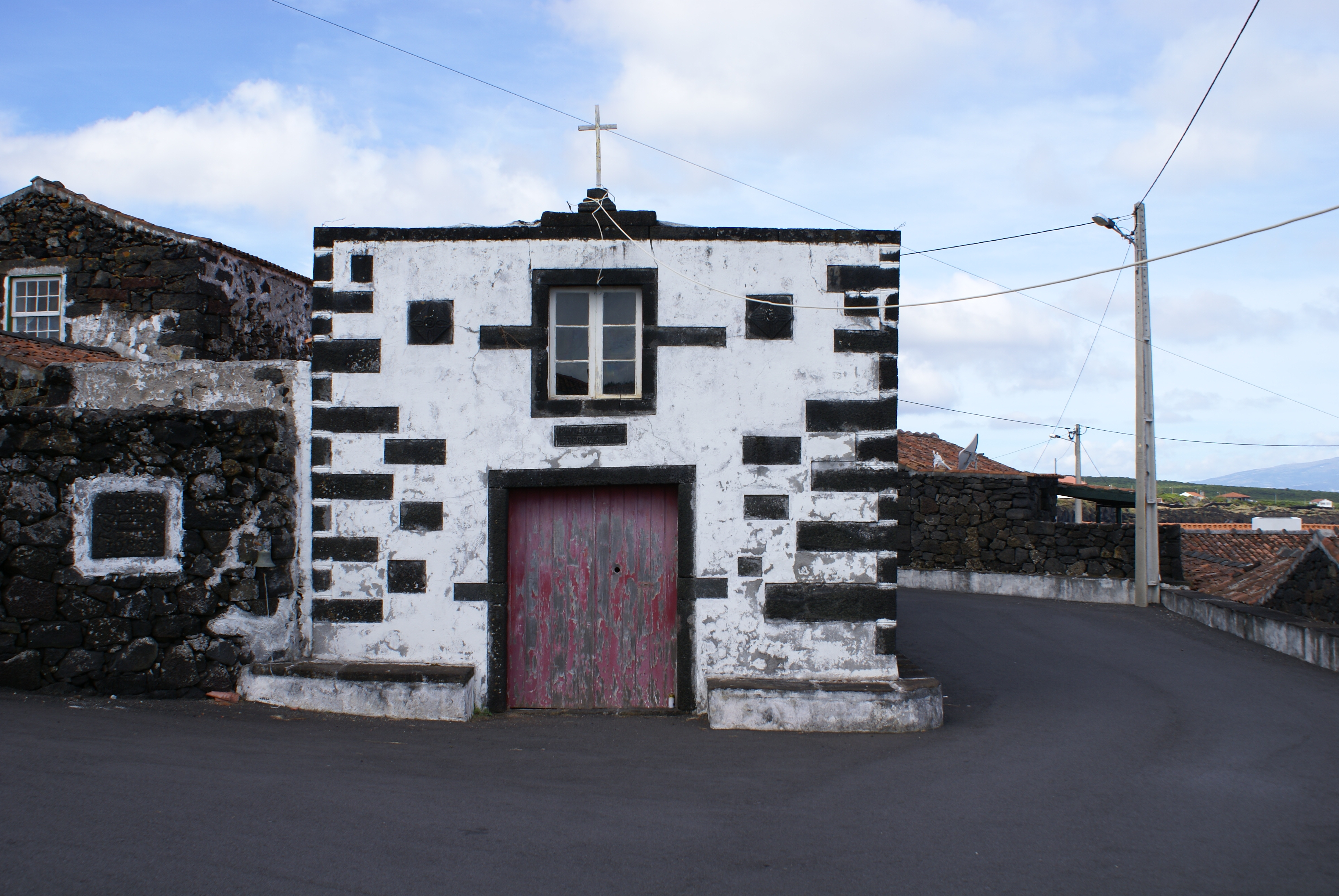 The weather front façade of the Chapel Nossa Senhora dos Milagres, Port of Cachorro, Bandeiras, Madalena do Pico, Pico (Azores), Portugal